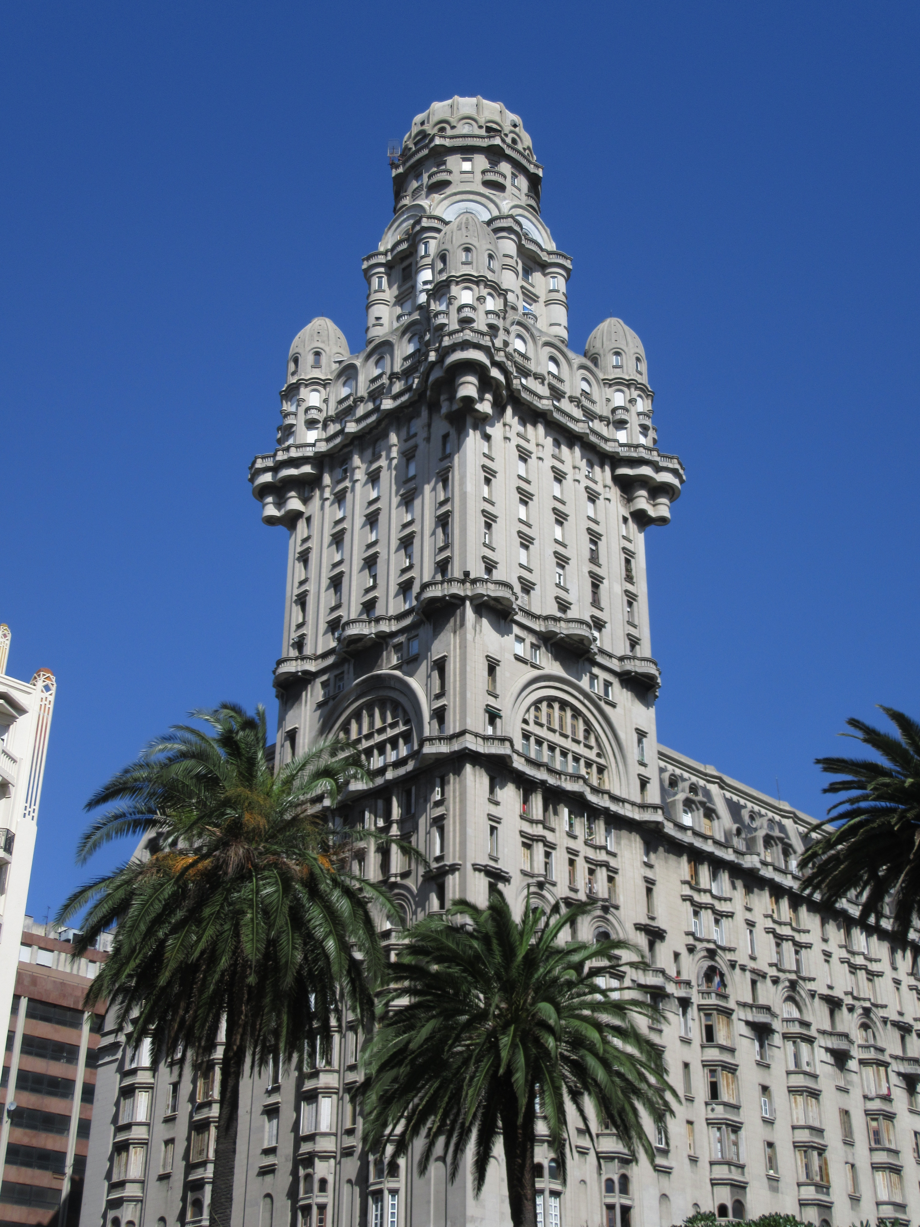 Montevideo (Uruguay). Palacio Salvo.